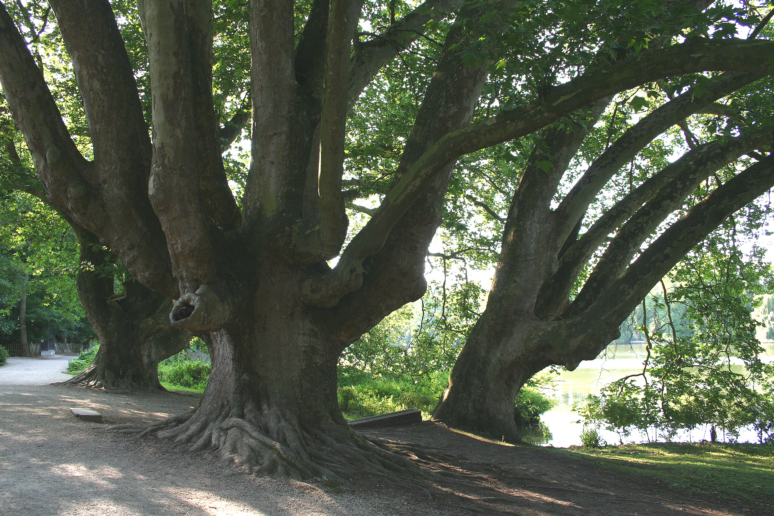 Oriental plane